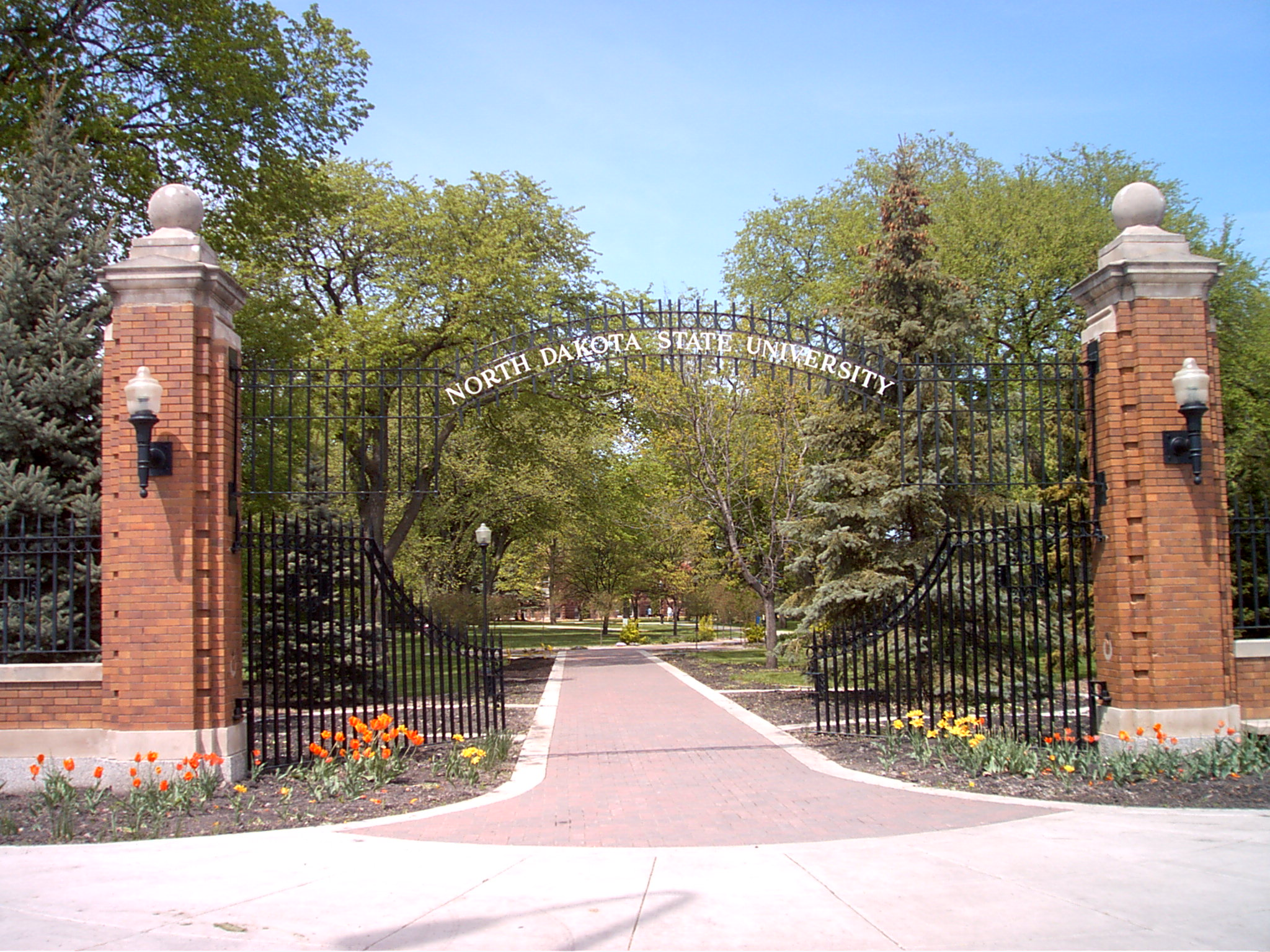 A picture of the gates at North Dakota State University I took the photo